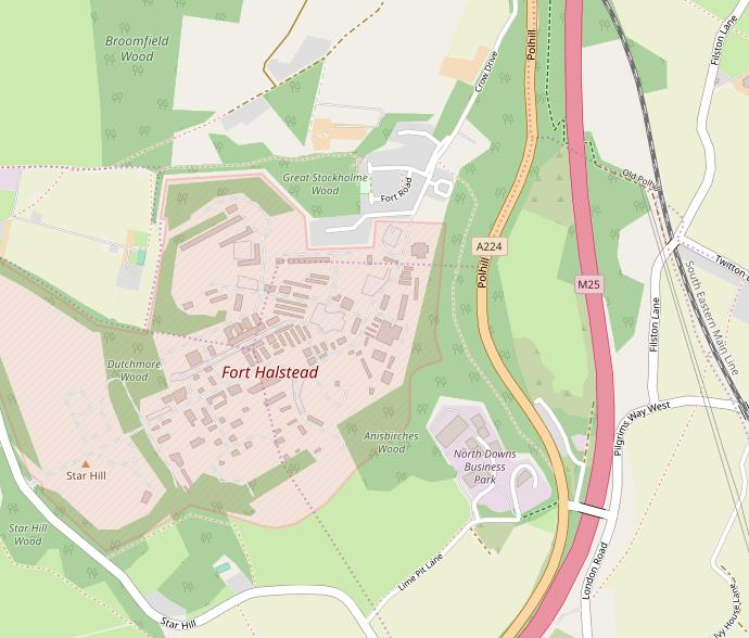 Fort Halstead is an historic Victorian era defensive fort that became a weapons research laboratory during the 20th century.